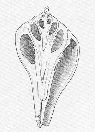 Section of Tubinella pyrium L., showing the plieae on the columnella and the growth of successive whorls Subject: Turbinella, Foraminifera Tag: Mollusks